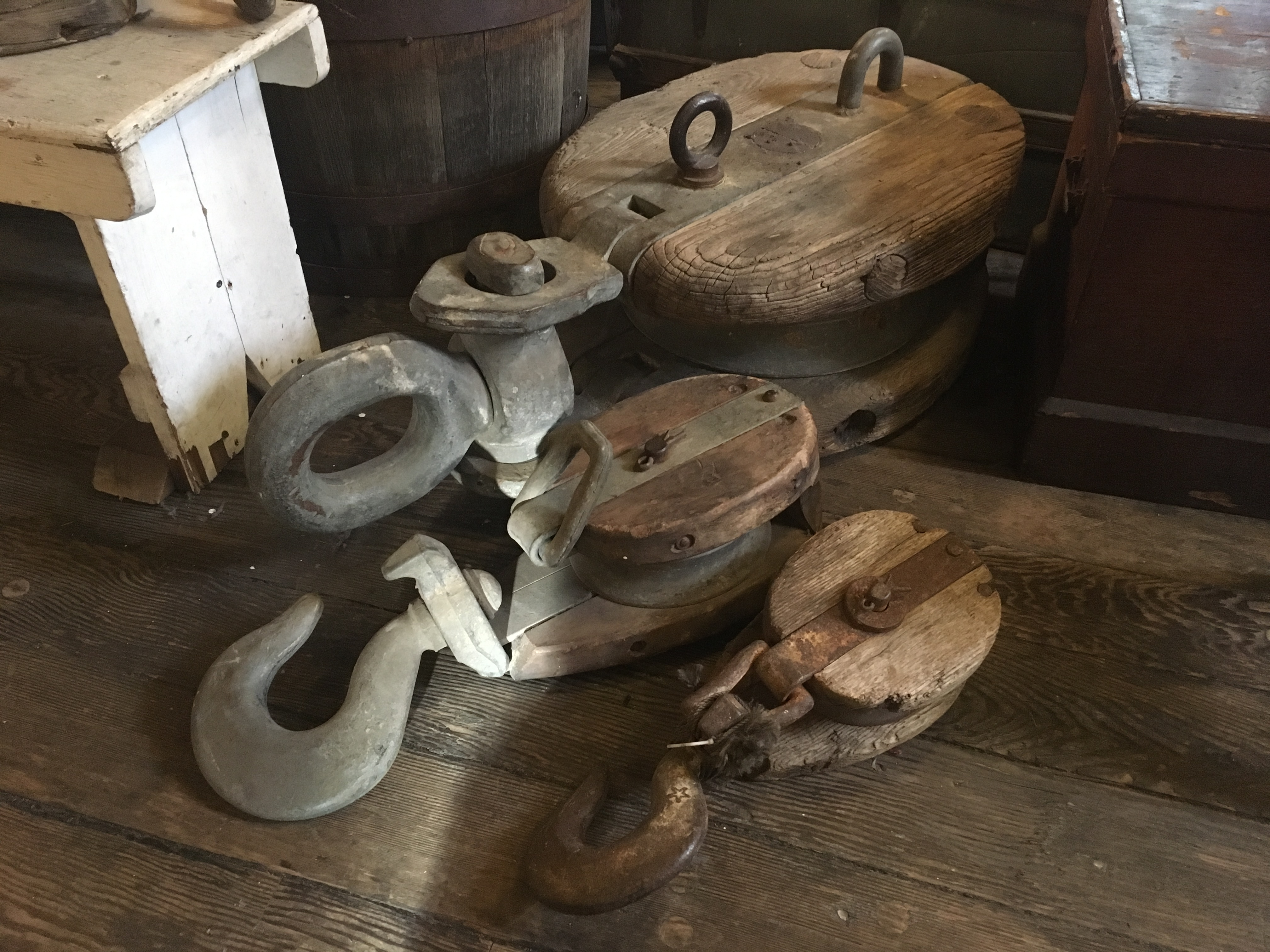 The left (and largest) snatch block is shown in the closed position, the center (middle size) is shown open, this opening is how the line is fed through the block. The small block, is shown closed and “moused”. Mousing can be accomplished with wire, or as in this case the small black cord. Mousing a snatch block is done to prevent the snatch from accidentally opening while in use. The ability to open the snatch block and attach an extra block onto a line that is already under tension is one of the many uses of a snatch block.